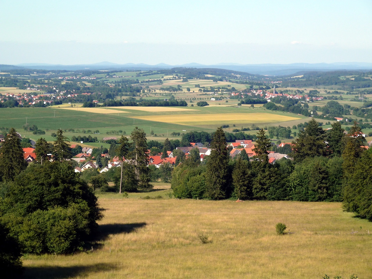 View from the viewing platform atop of the Hoellerich above Bermuthshain, Hesse, Germany.